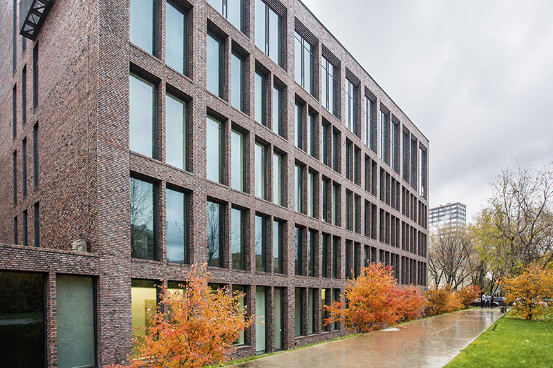 Arthouse mixed residential/commercial building in Moscow